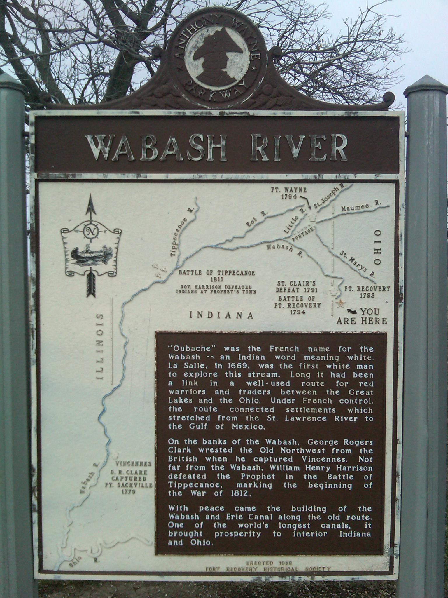 Sign for the beginning of the Wabash river.